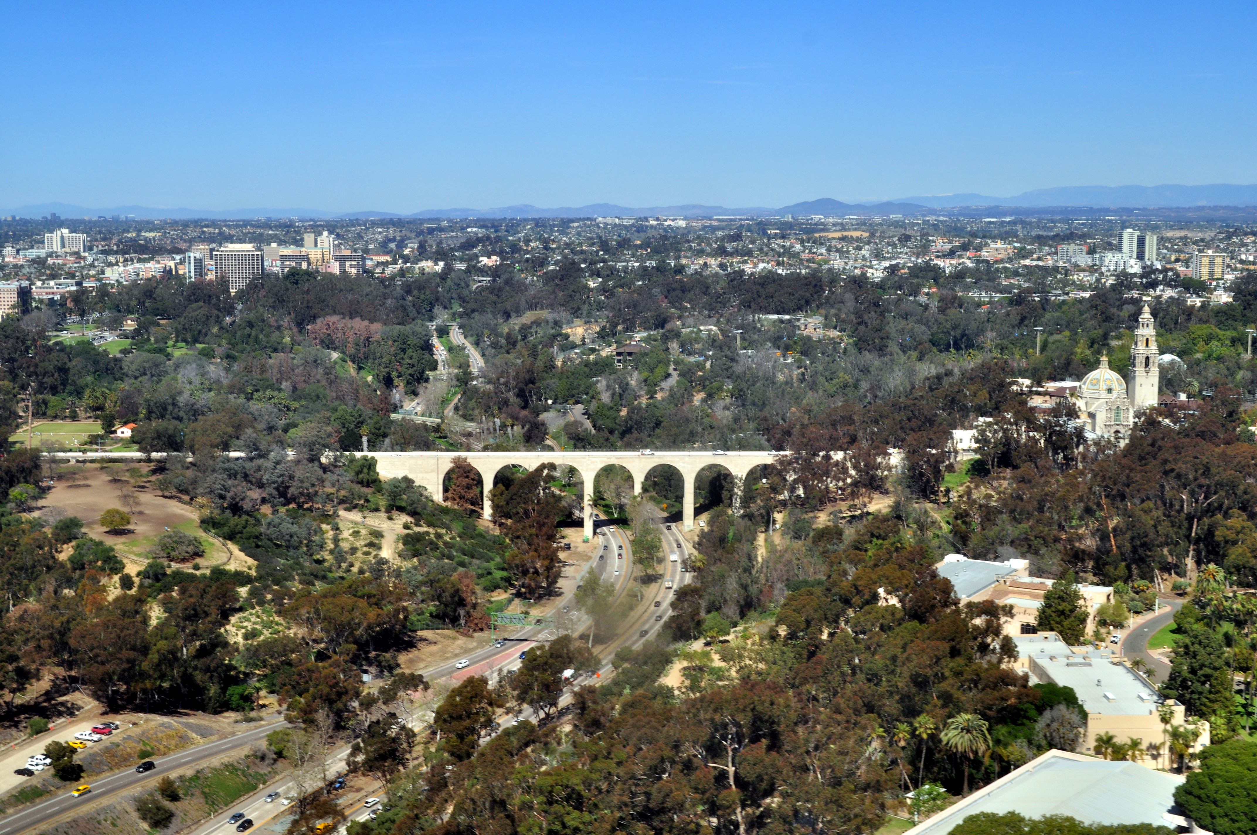 Low aerial view of Cabrillo Bridge and Museum of Man, San Diego, California, looking north.